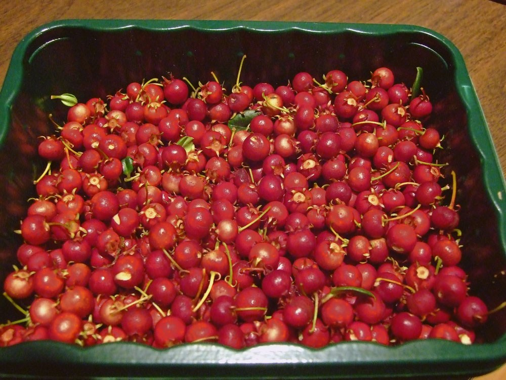 The fruit of Ugni molinae.